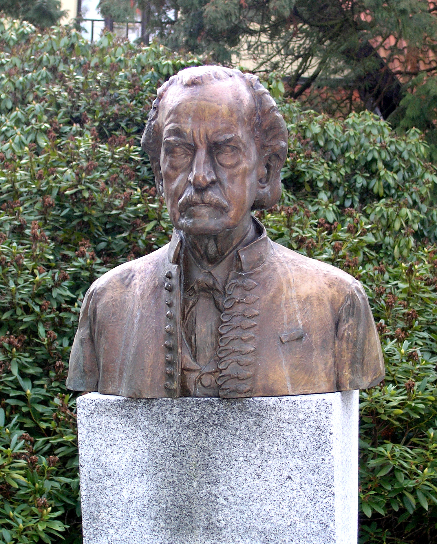 Czech astronomer Josef Jan Frič, founder of the Astronomical observatory in Ondřejov